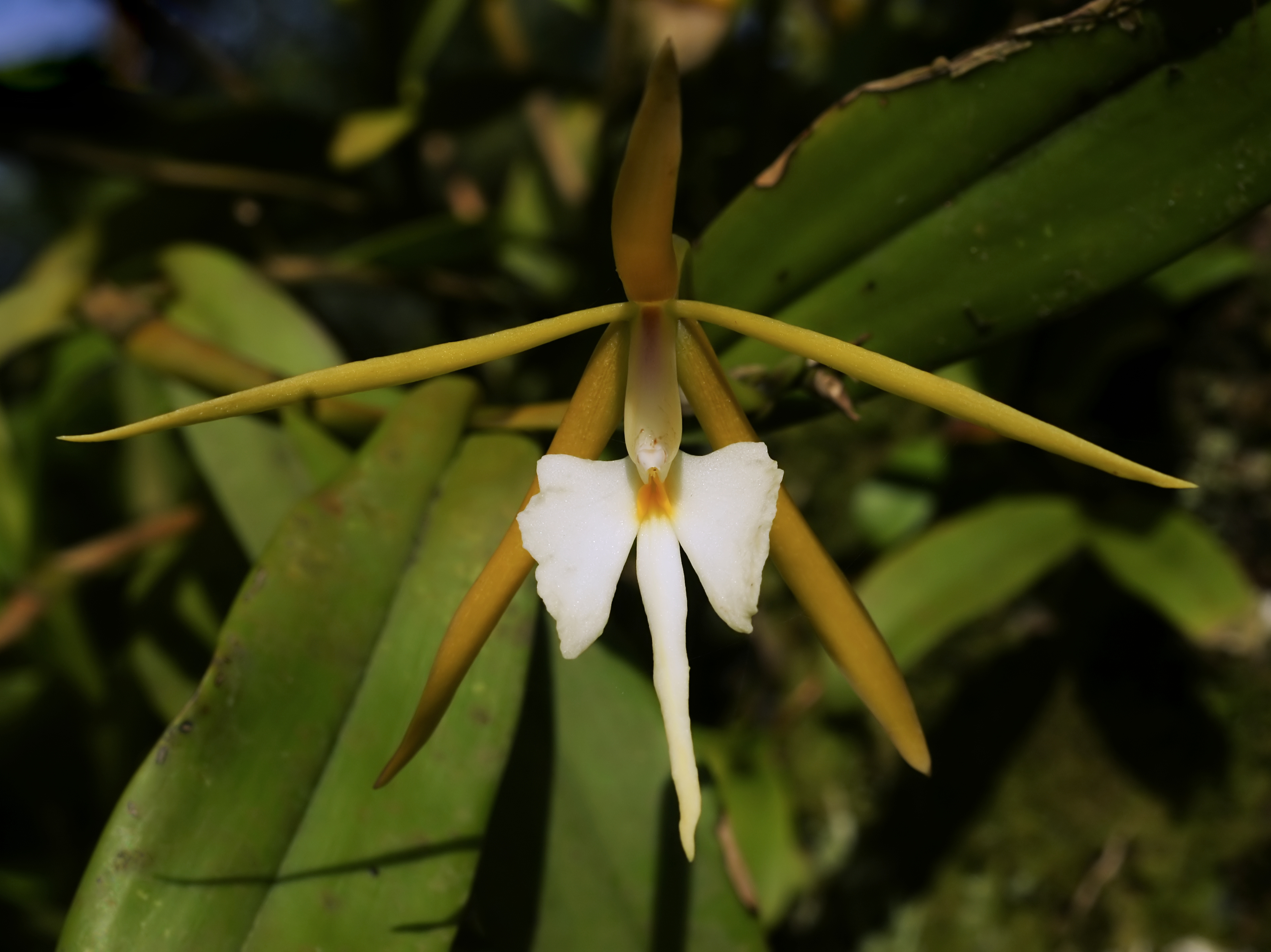 Night-scented Orchid at Tortuguero, Costa Rica